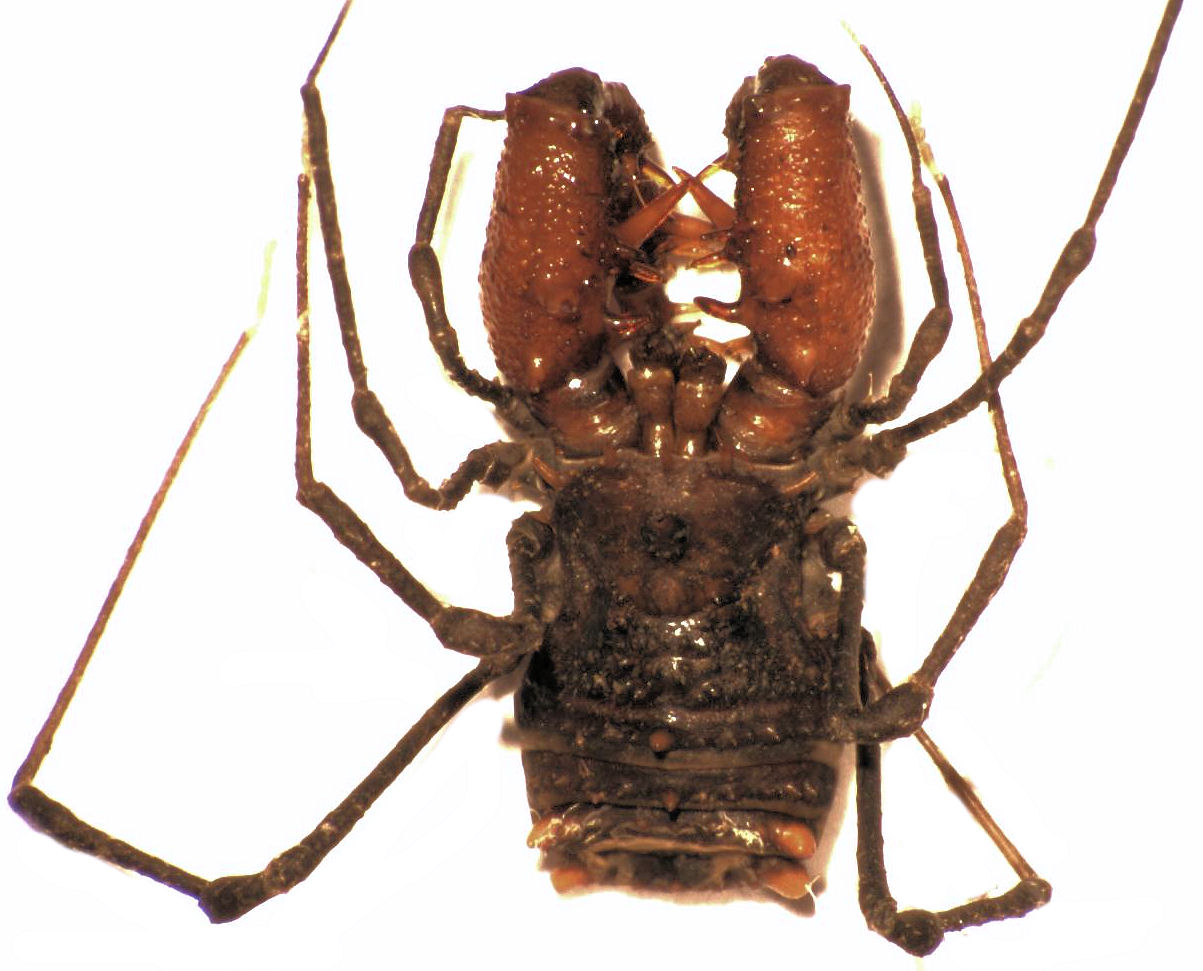 adult Karamea lobata